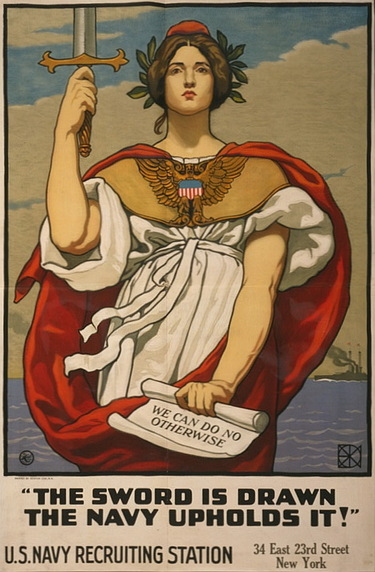 World War I poster by American painter Kenyon Cox (1856-1919). "The sword is drawn, the Navy upholds it!"